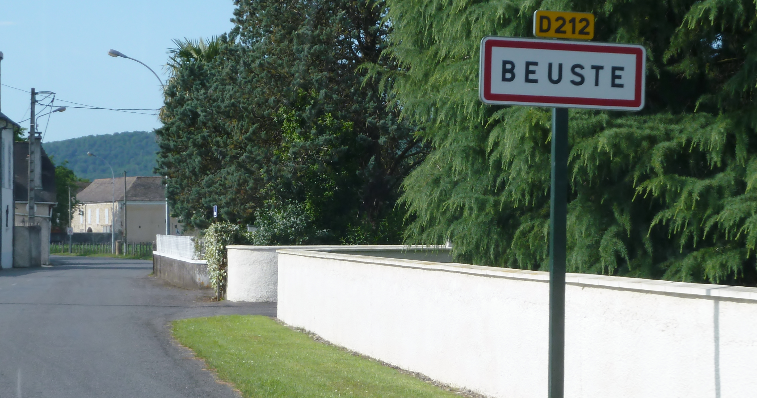 Entrée dans Beuste